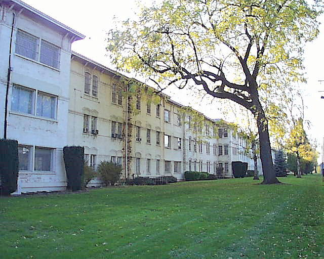 Occupied Center Street wing of Oregon State Hospital, Salem, Oregon, United States